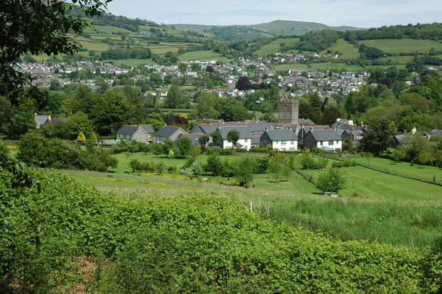 Llangattock, Powys, Wales, with the tower of St Catwg's parish church centre right